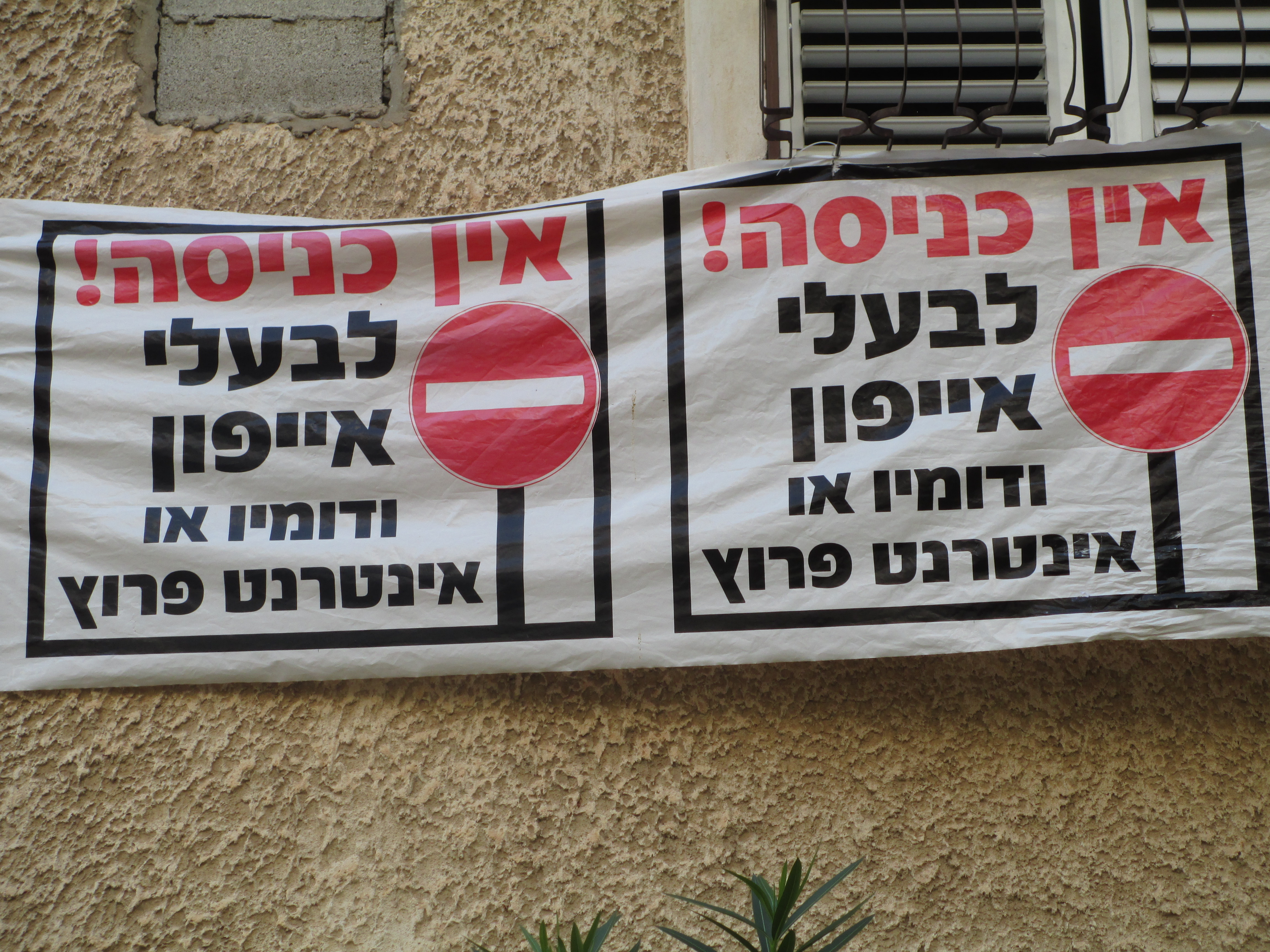 Plaque forbids use of Internet and Smartphones in Bnei Brak